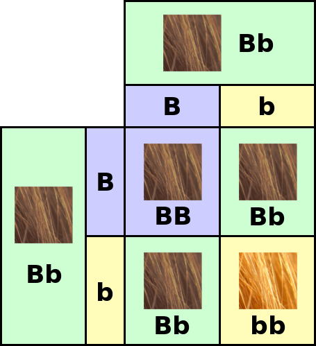 Punnett square of hair colors. Made using File:Redhead close up.jpg.